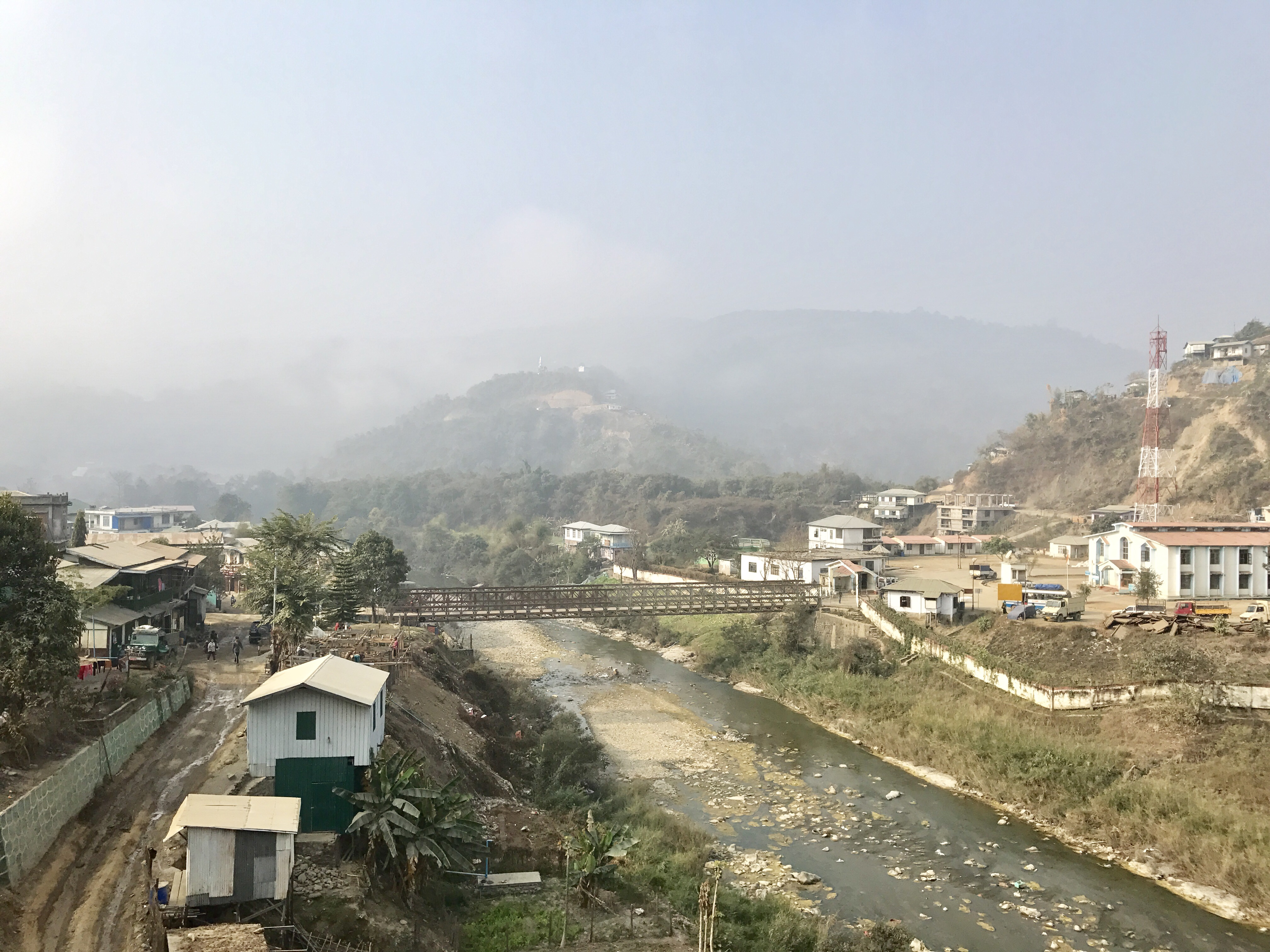 Burma on the left and India on the right bank of Tio River. Rihkhawdar is the busy trading broader town on the Chin State of Burma side and Zokhawdar on Mizoram State of India side.